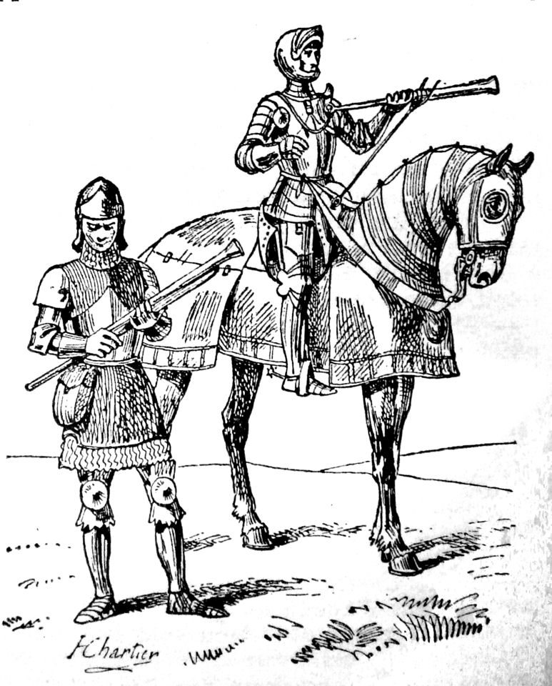 Culverin